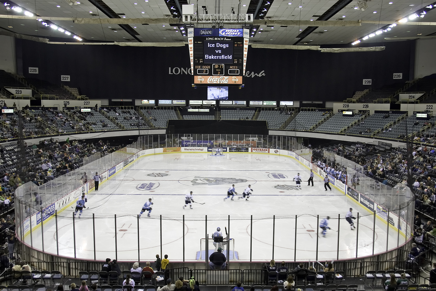 Early in third period